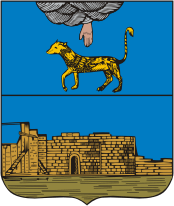 Porkhov (Pskov oblast), coat of arms (1781)